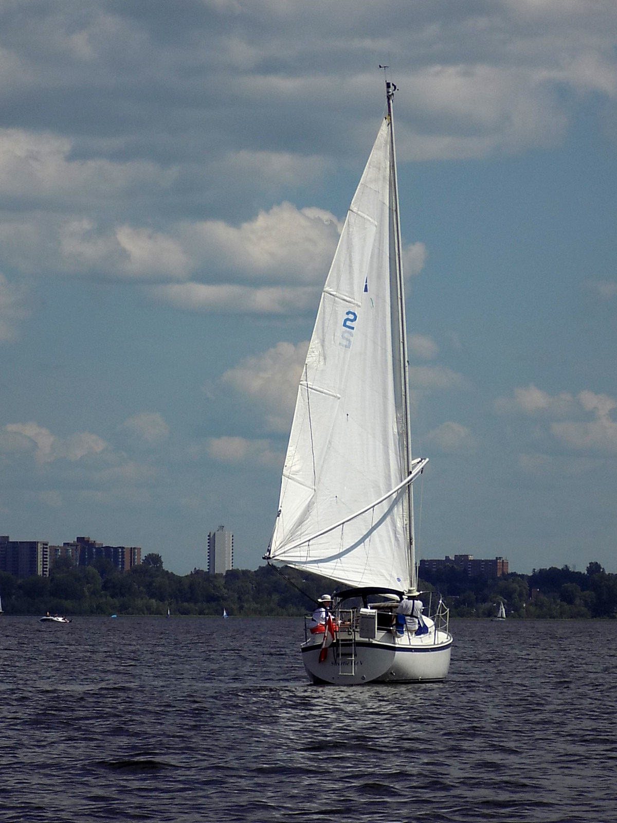 A Nonsuch 22 sailboat.